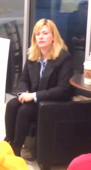 Brain on Fire author Susannah Cahalan visits Towne Book Center and answers questions from readers. Screenshot from video.